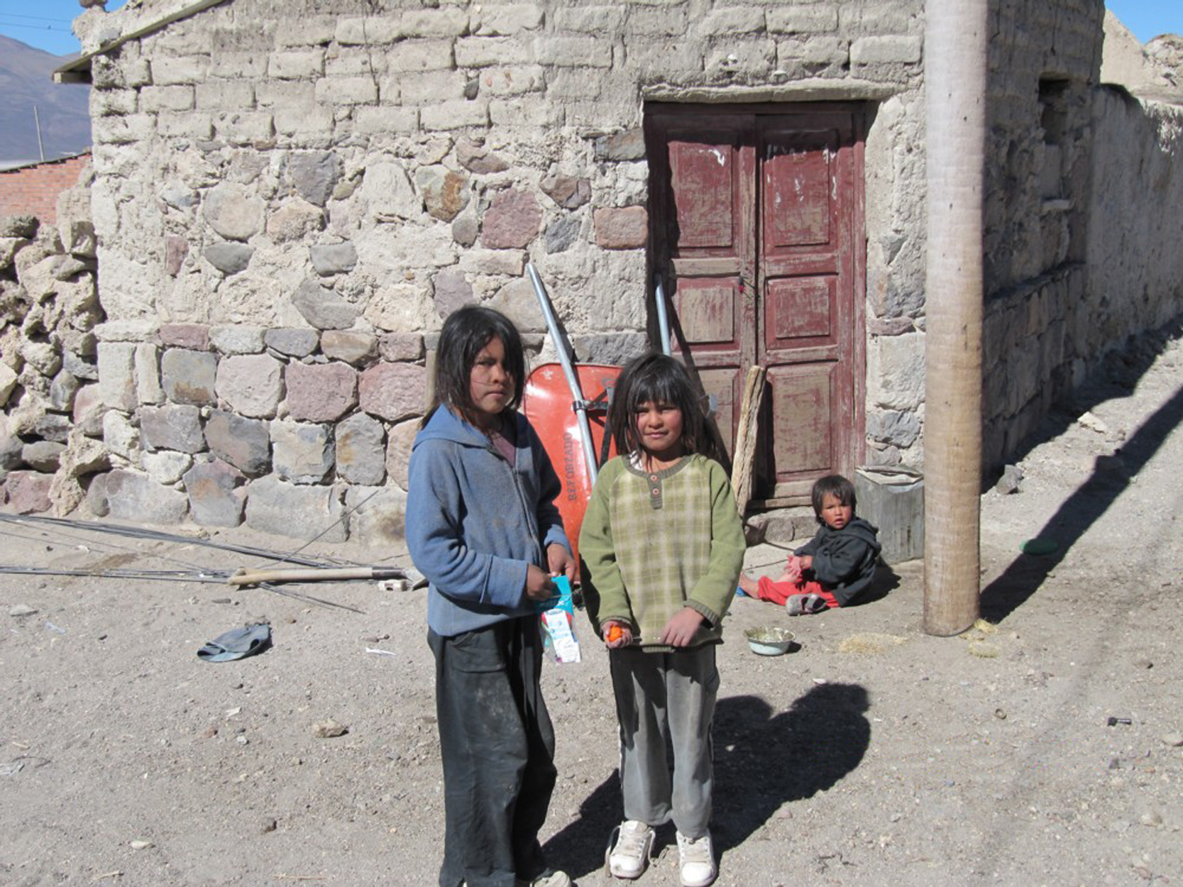 Villa Vitalina kids